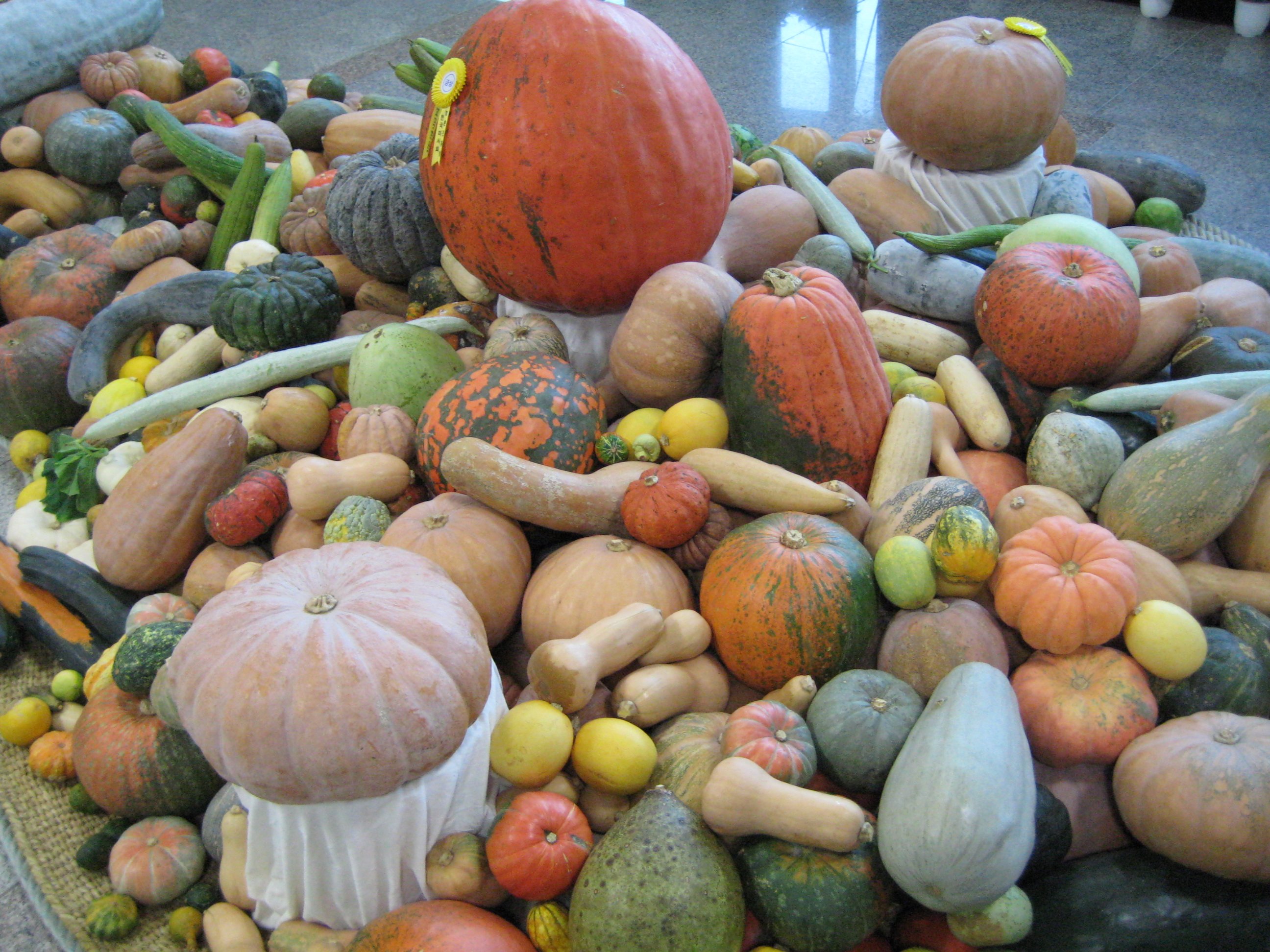 Seen on this image is a selection of cucurbits of the South Korean Genebank in Suwon. Including luffas (Luffa aegyptiaca), wax gourds (Benincasa hispida), bottle gourds (Lagenaria siceraria), snake gourds (Trichosanthes cucumerina); and pumpkins and gourds—squash (Cucurbita sp.). Locality: Suwon, South Korea, National Genebank.